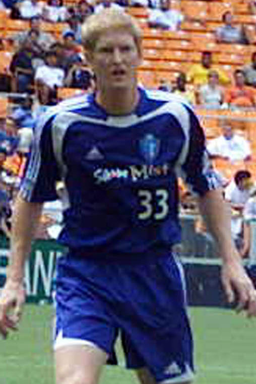 Jim Curtin at the 2004 Major League All Star Game. This file has been extracted from another file: 2004 MLS ALl Star Game.jpg Original description: Landon Donovan, in the yellow #10 jersey, makes a play for the ball in the first half of the 2004 Sierra Mist Major League Soccer All-Star game. Donovan has a heightened awareness of what Soldiers go through; his older brother was in the Army.